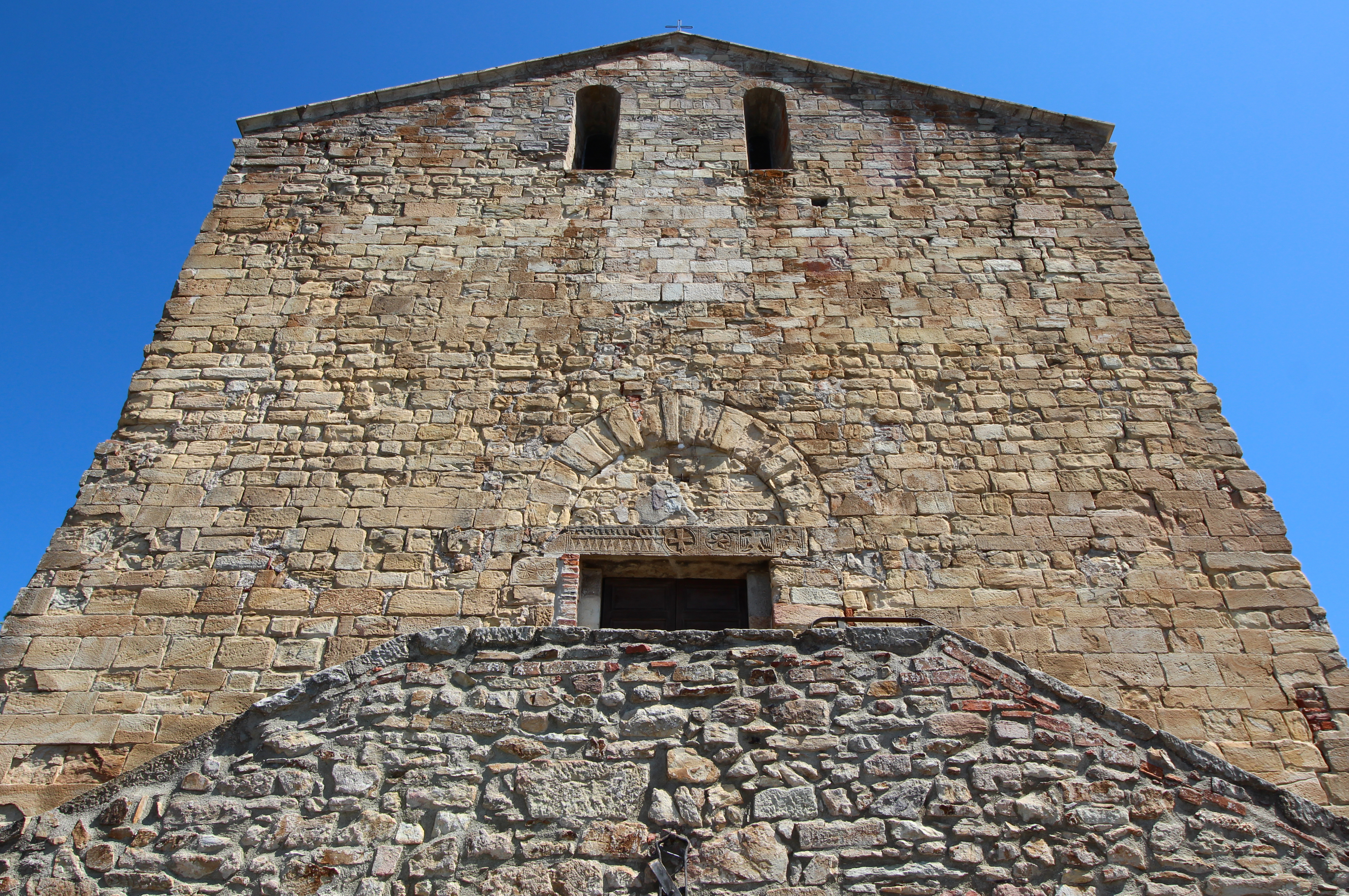 Church Chiesa della Santissima Concezione (Pieve di Santa Mustiola) in Sticciano, hamlet of Roccastrada, Maremma / Colline Metallifere, Province of Grosseto, Tuscany, Italy